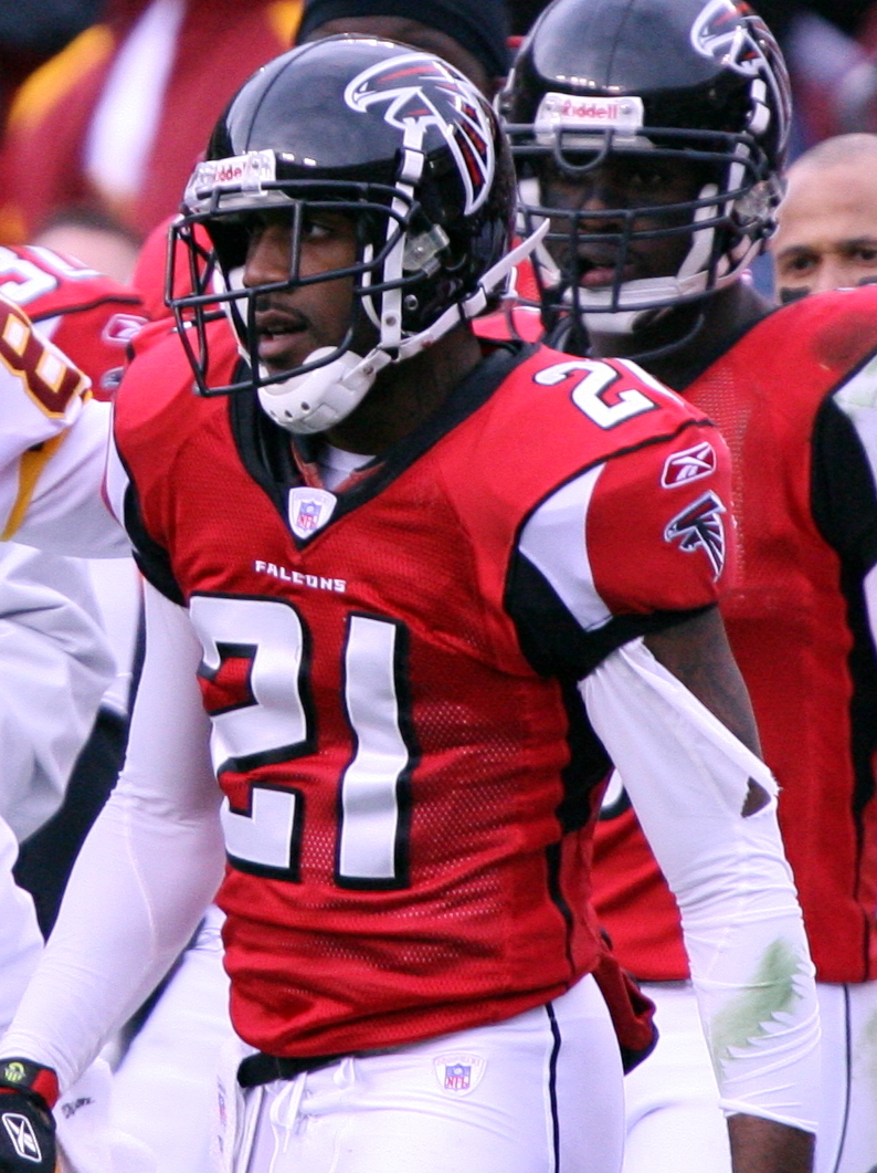 2006 Falcons-Redskins game.